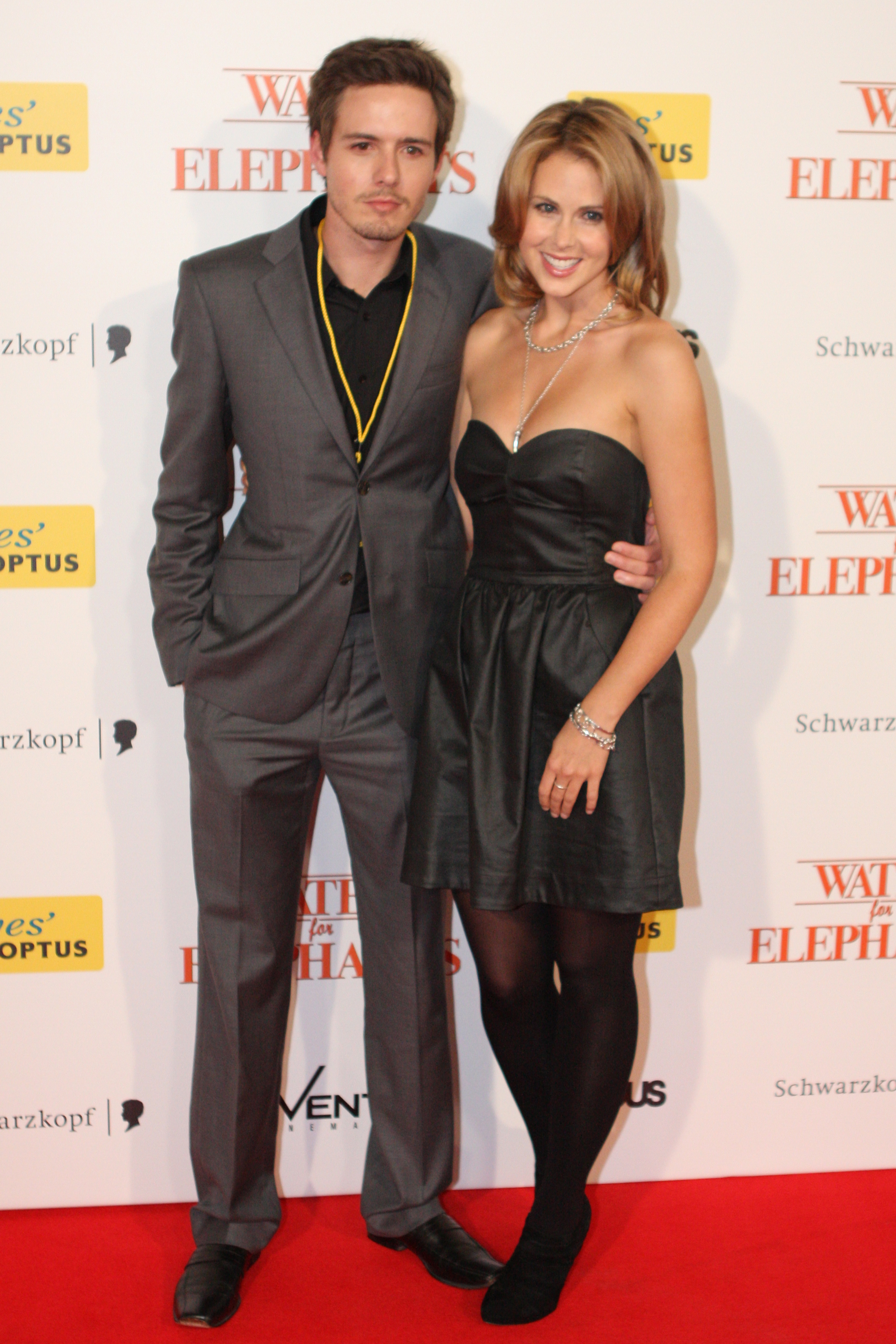 Jason Smith & Anna Hutchison at "Water for Elephants" Sydney premiere, May 2011